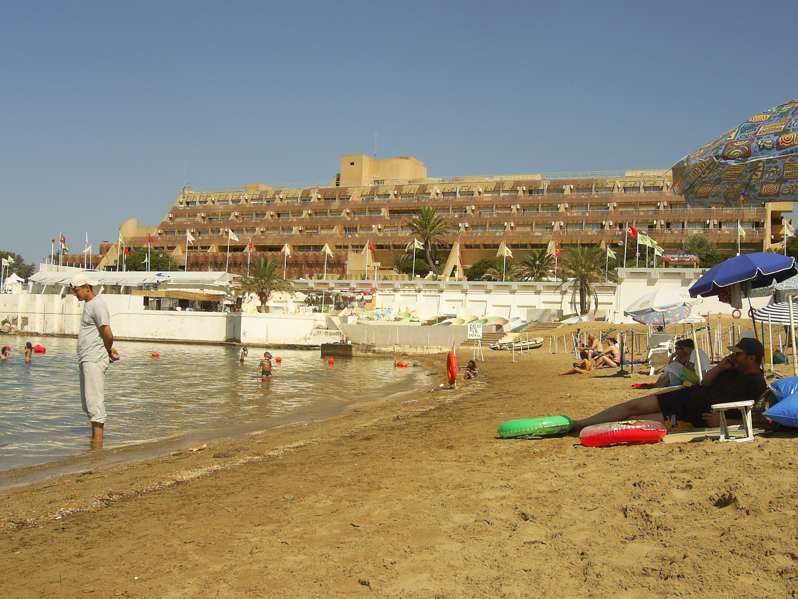 thalasso beach algiers